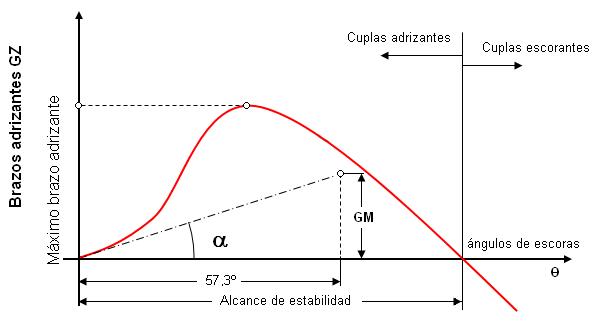 stability curve.